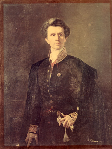 Kirill Gorbunov (1822-1893) Portrait of a professor of painting Alexey Markov